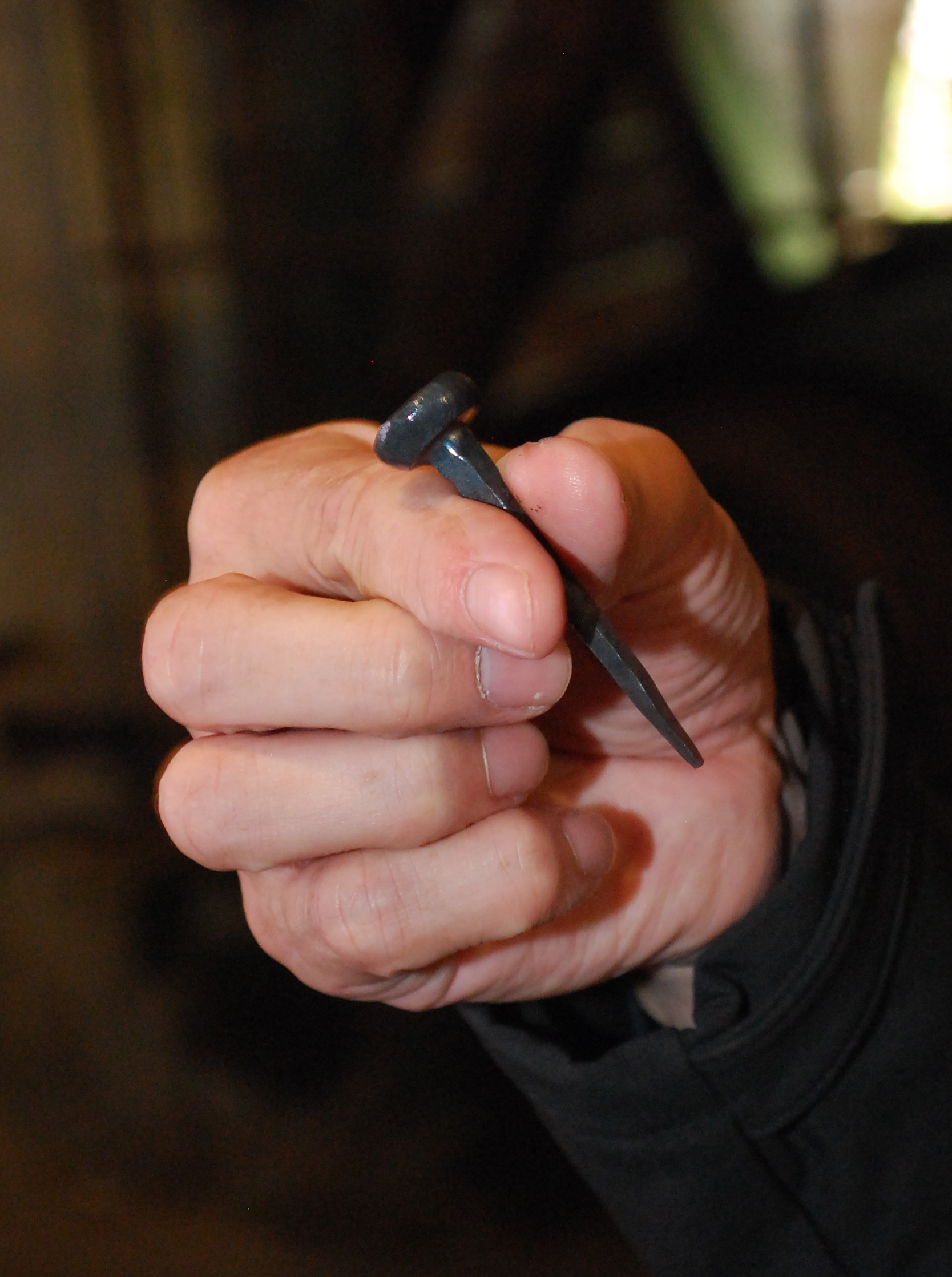 Forge in Wallachian Open Air Museum - hand-made nail